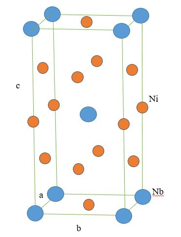 Unit cell for Ni3Nb (Body Centered Tetragonal)